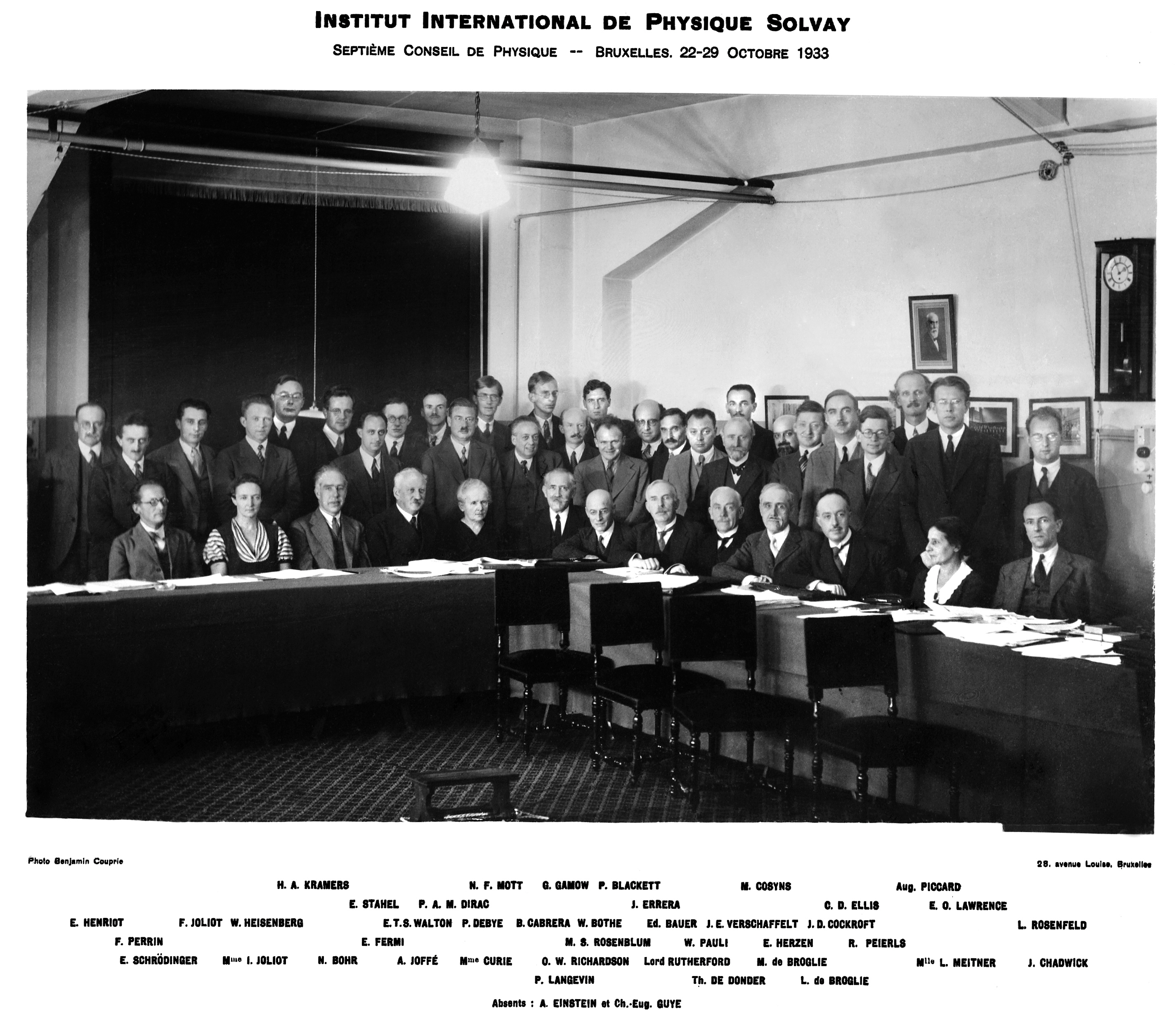 A group of scientists participated in the 7th Solvay Conference, Bruxelles (October 1933). Seated (left to right): Erwin Schrödinger, Irène Joliot-Curie, Niels Henrik David Bohr, Abram Ioffe, Marie Curie, Paul Langevin, Owen Willans Richardson, Lord Ernest Rutherford (* 30. August 1871 in Spring Grove bei Nelson; † 19. Oktober 1937 in Cambridge, Vereinigtes Königreich), Théophile de Donder, Maurice de Broglie, Louis de Broglie, Lise Meitner, James Chadwick. Standing (left to right): Émile Henriot, Francis Perrin, Frédéric Joliot-Curie, Werner Heisenberg, Hendrik Anthony Kramers, Ernst Stahel, Enrico Fermi, Ernest Walton, Paul Dirac, Peter Debye, Nevill Francis Mott, Blas Cabrera y Felipe, George Gamow, Walther Bothe, Patrick Blackett, M.S. Rosenblum, Jacques Errera, Ed. Bauer, Wolfgang Pauli, Jules-Émile Verschaffelt, Max Cosyns, E. Herzen, John Douglas Cockcroft, Charles Drummond Ellis, Rudolf Peierls, Auguste Piccard, Ernest O. Lawrence, Léon Rosenfeld. Absents: Albert Einstein (emigr. USA) and Charles Eugène Guye